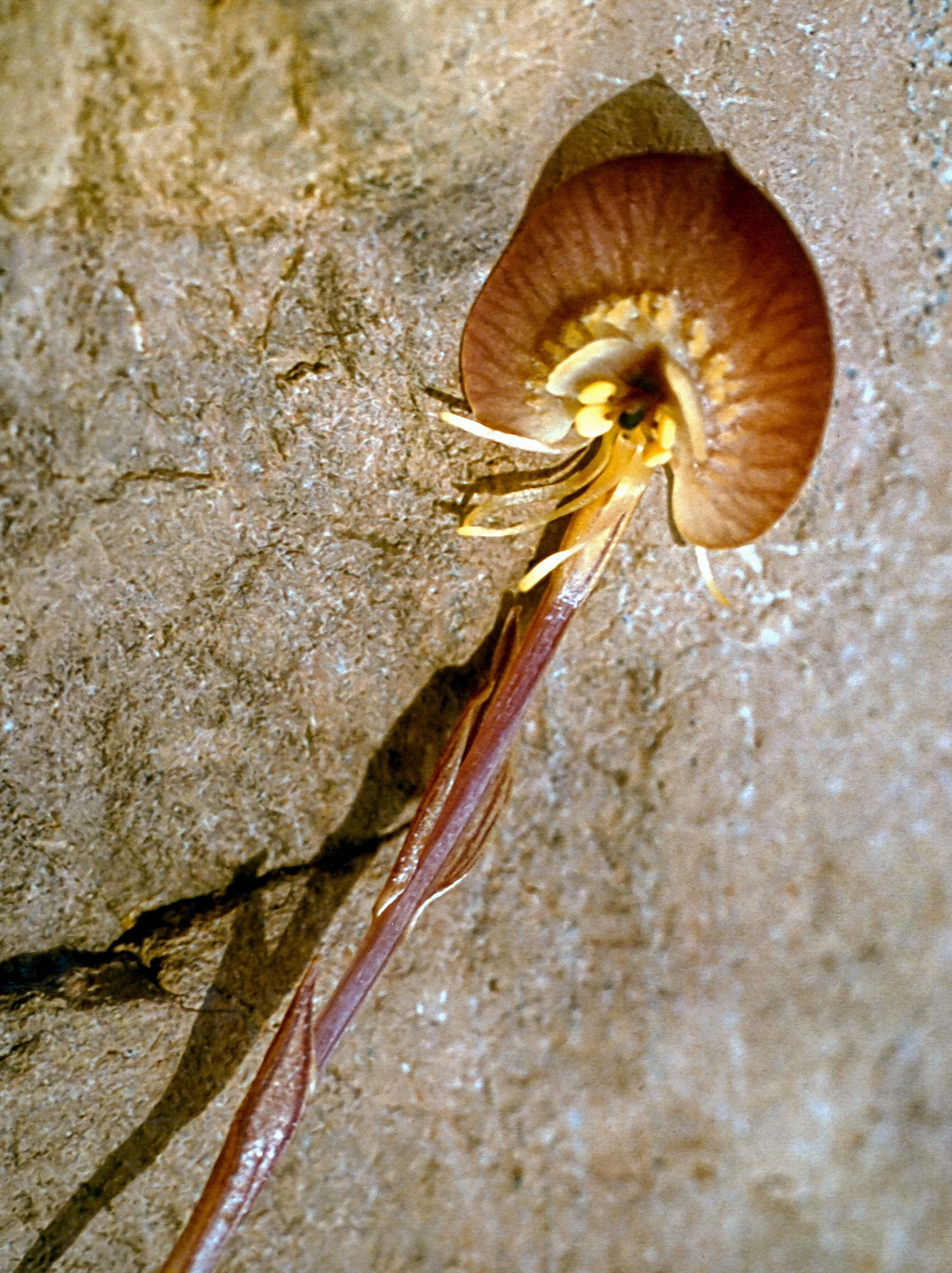 Corsia spec. II (not fully determined). Papua New Guinea, Western Highlands, Minj Subdistrict, Mt. Hagen area. Foothills near Jimmi [Jimi] divide, above Jimi Valley Road to Jimi Divide, mid-montane secondary forest, ca. 1.730 m